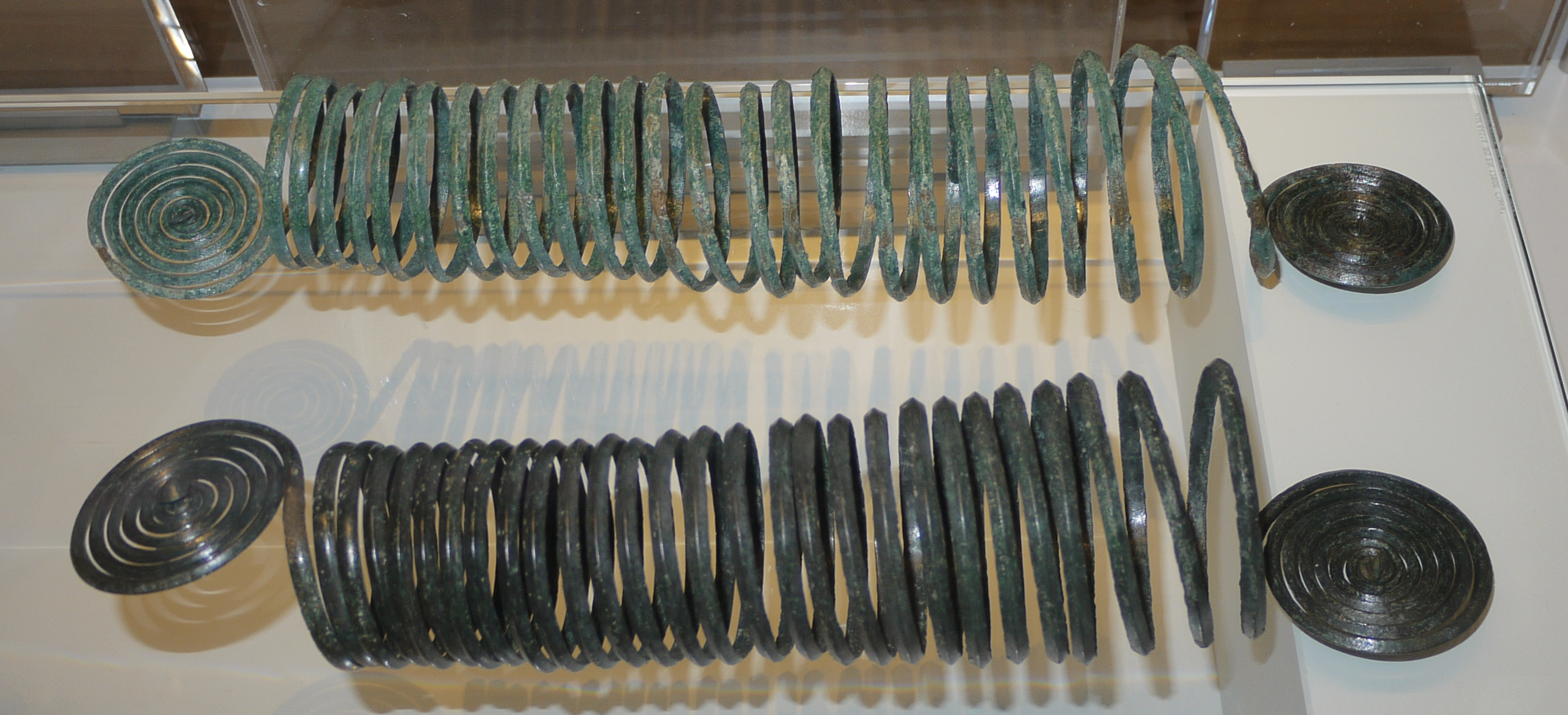 Photo of a pair of bronze age arm bands in the British museum. They date from around 1400-1200 BC and were found in Forró, Northern Hungary. Object numbers WG.1207 andWG.1208